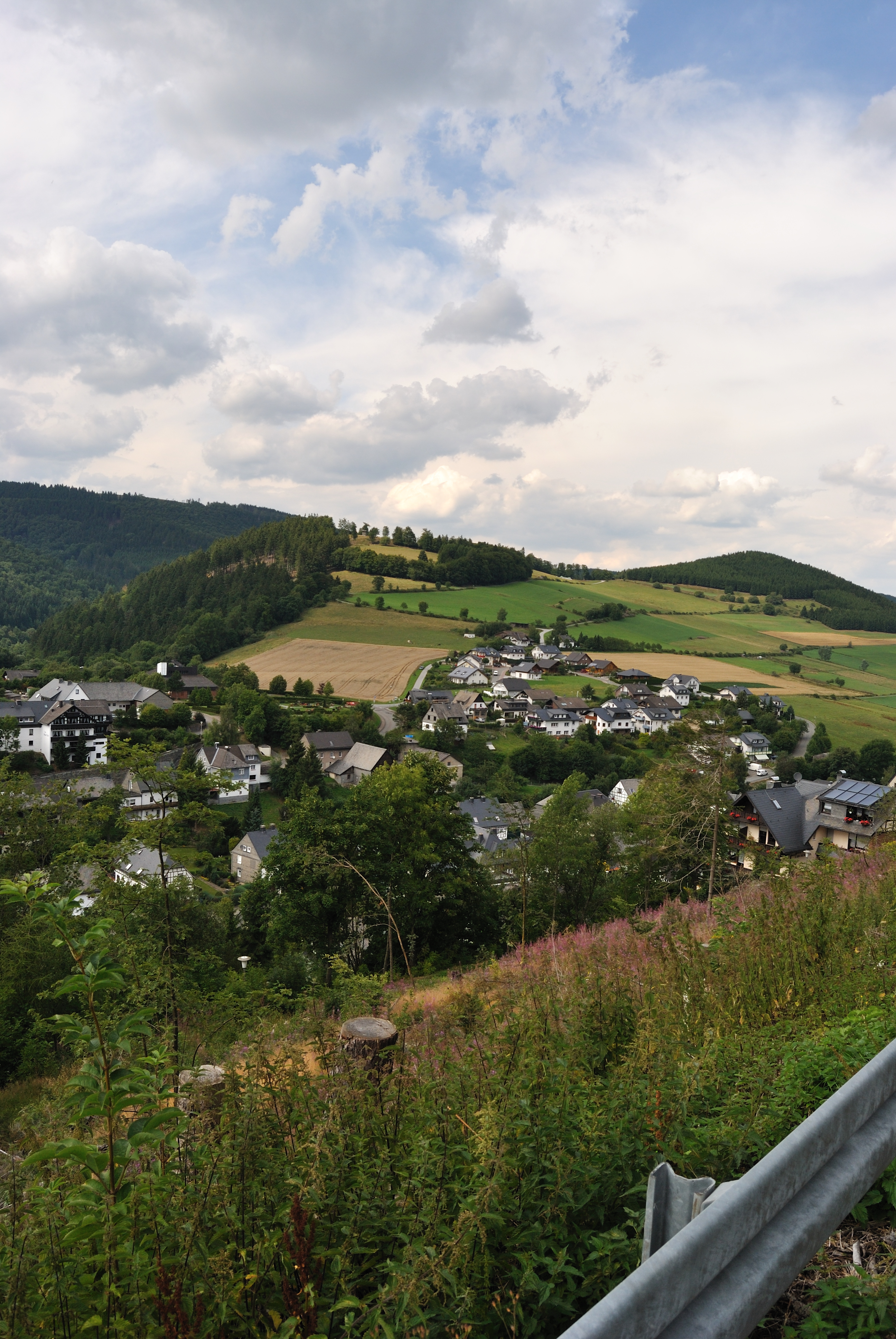 Concerning this file, a RAW file still exists.